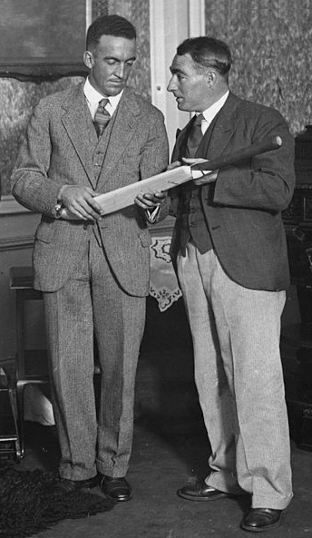 1st May 1931: Members of the New Zealand cricket team in their London hotel room selecting their bats (left to right) Page and Stewart Dempster.